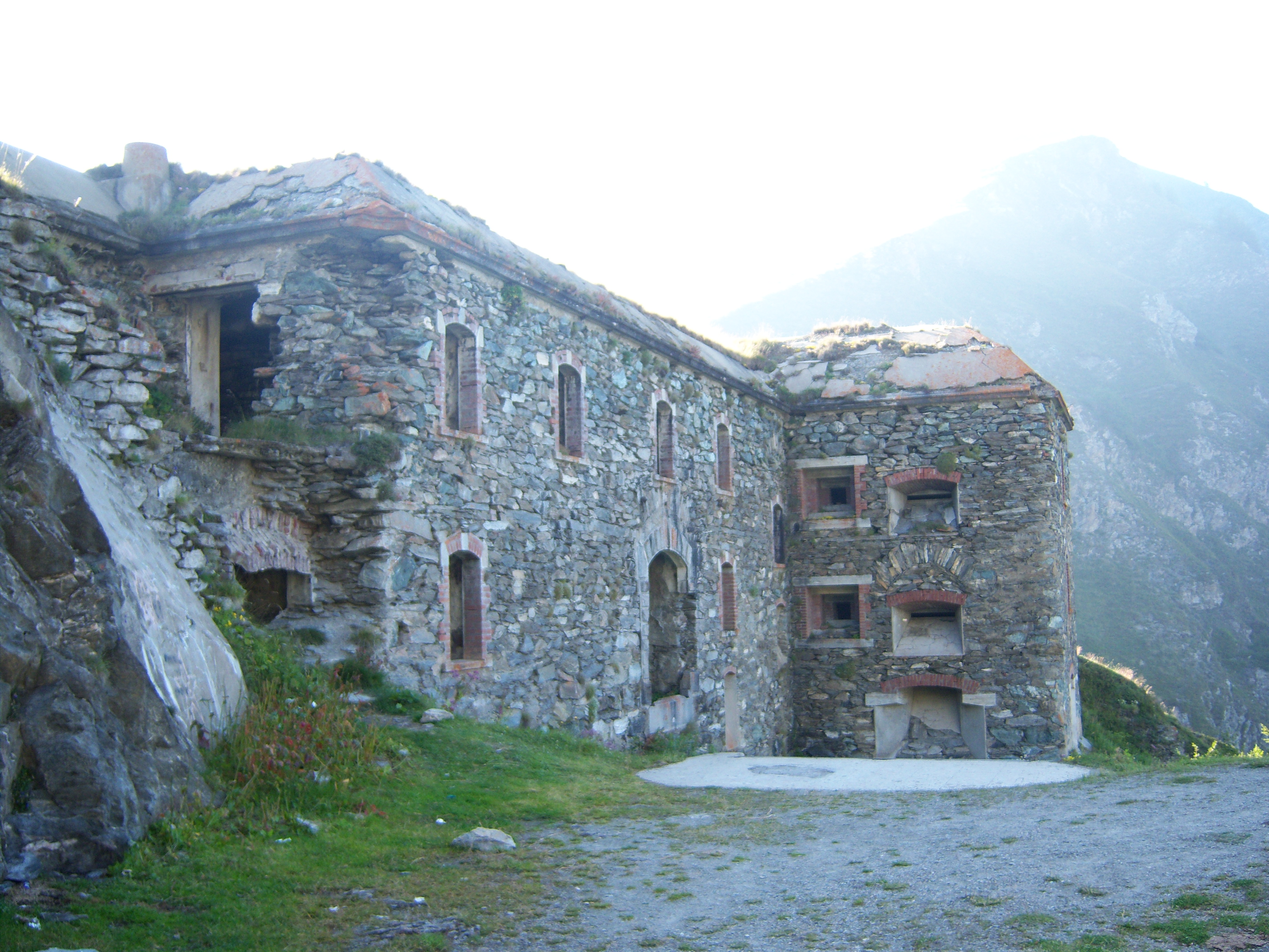 Wiew of the Colle delle Finestre's fort